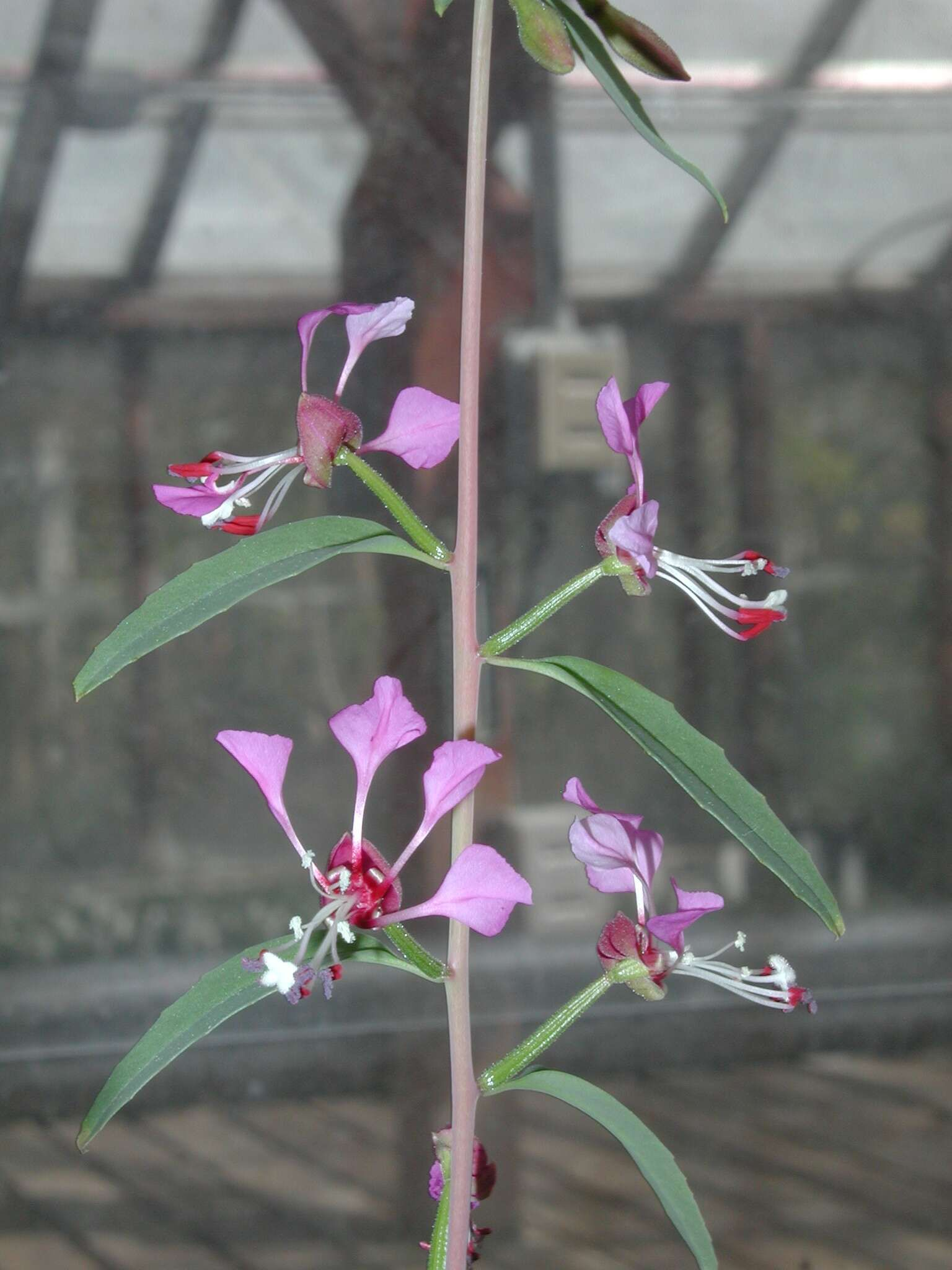 Section of stem with flowers of Clarkia exilis (Onagraceae). Greenhouse grown plant taken at UC Santa Barbara